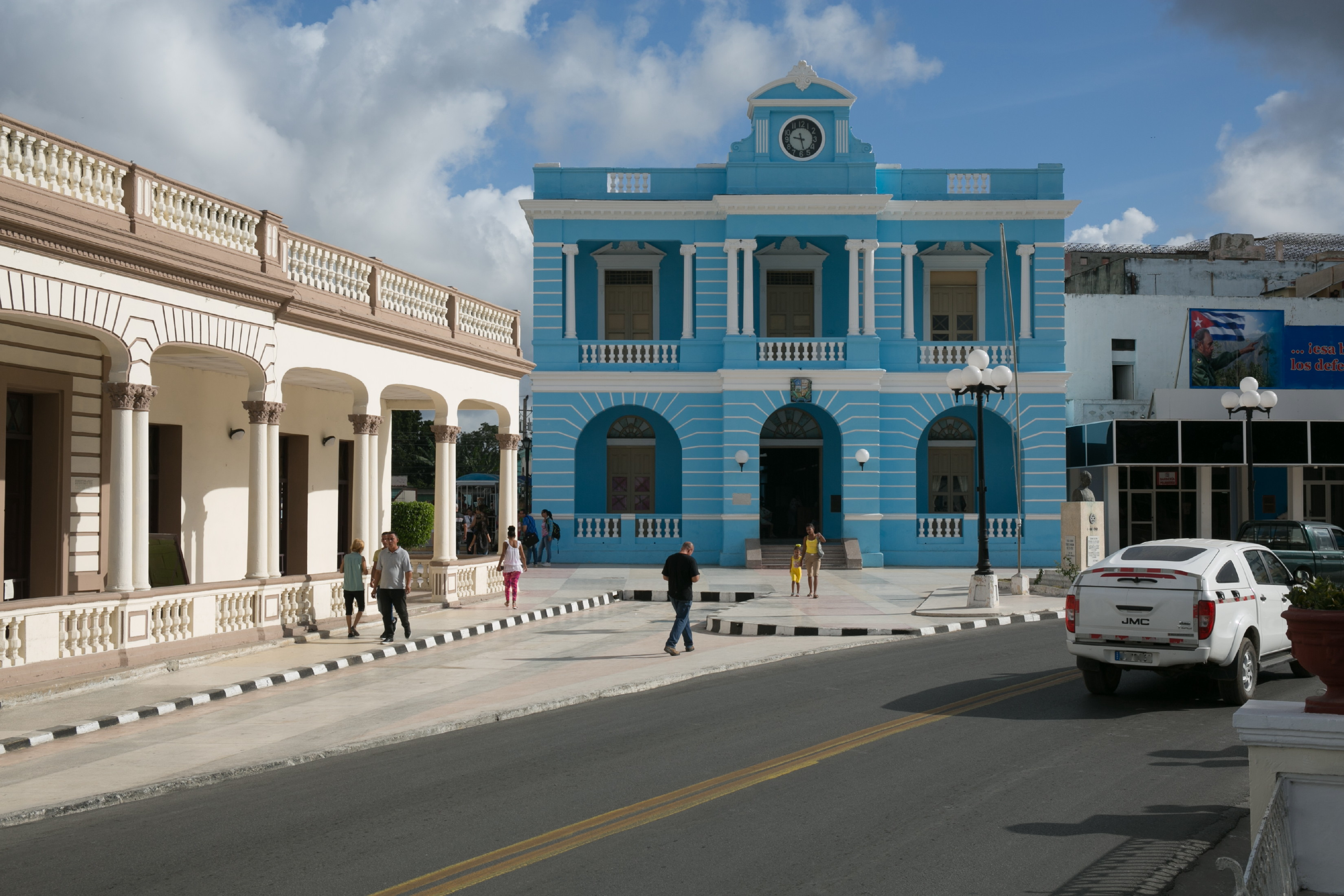 Las Tunas, Cuba, in the center, calle Vincente García